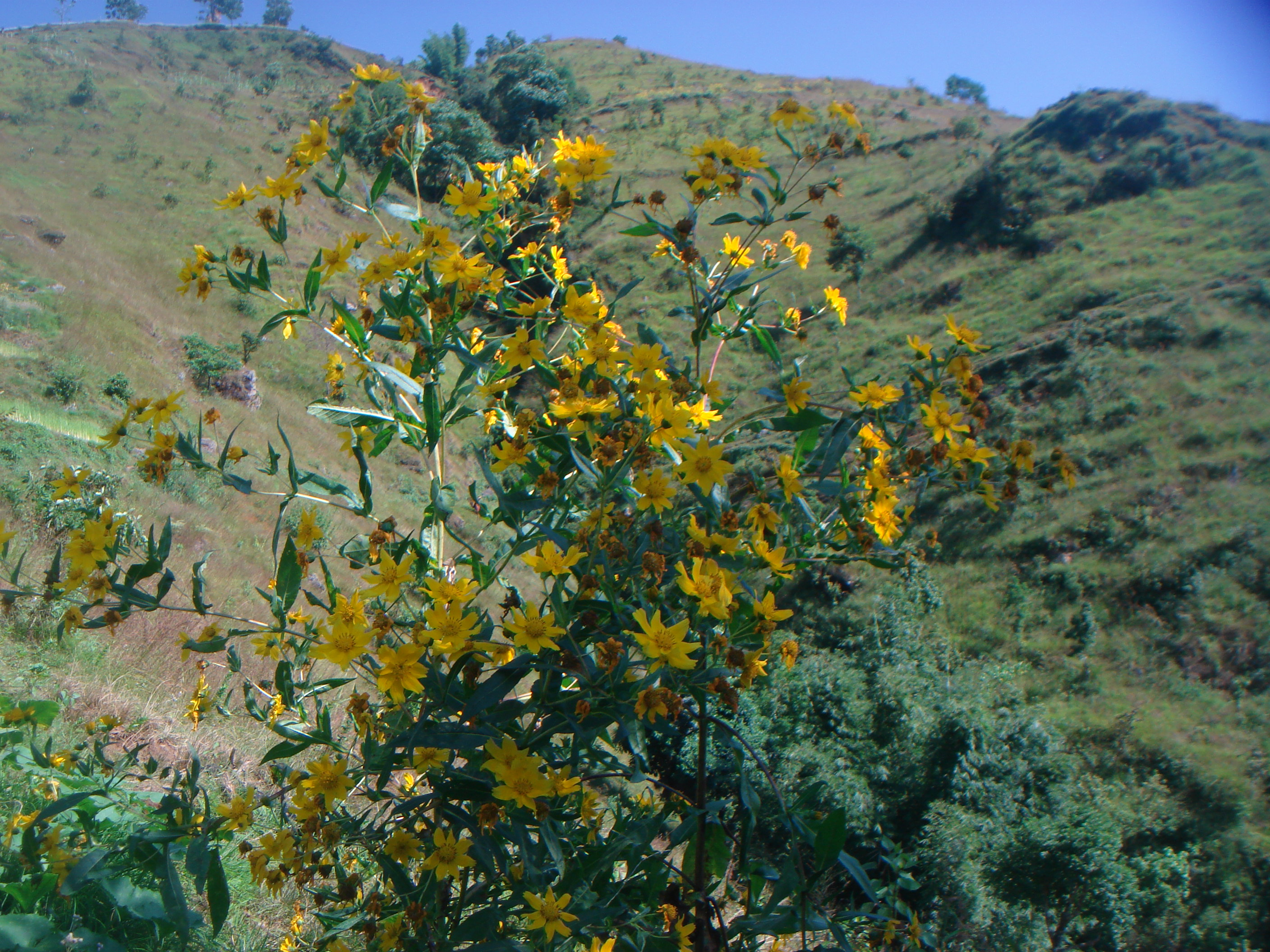 A view of Okaldhunga